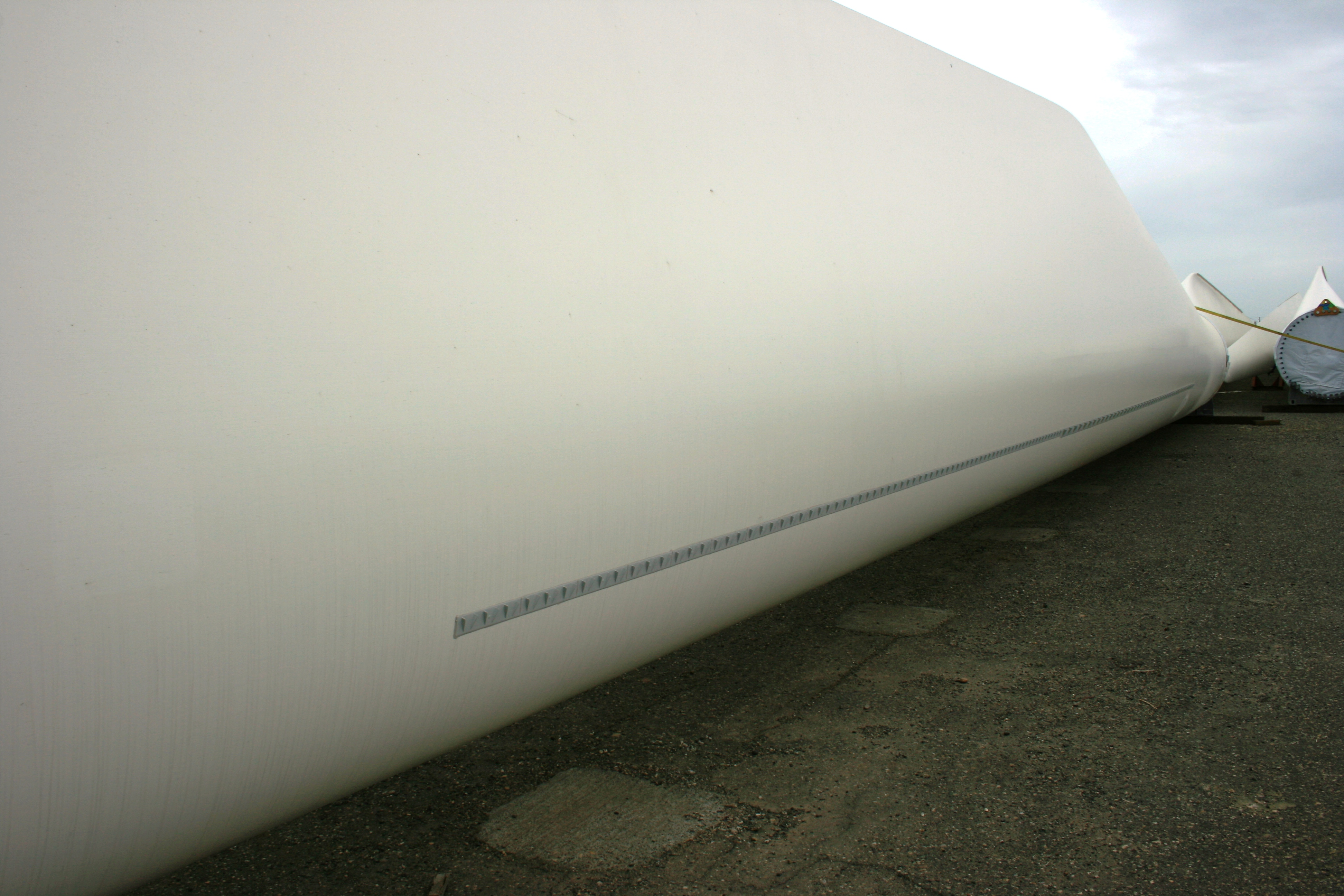 tabs/fins on windmill turbine blade.